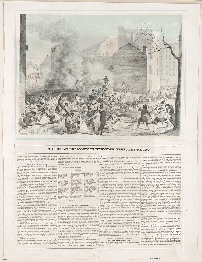 Drawing and summary of the Hague Street Explosion, New York City, 1850